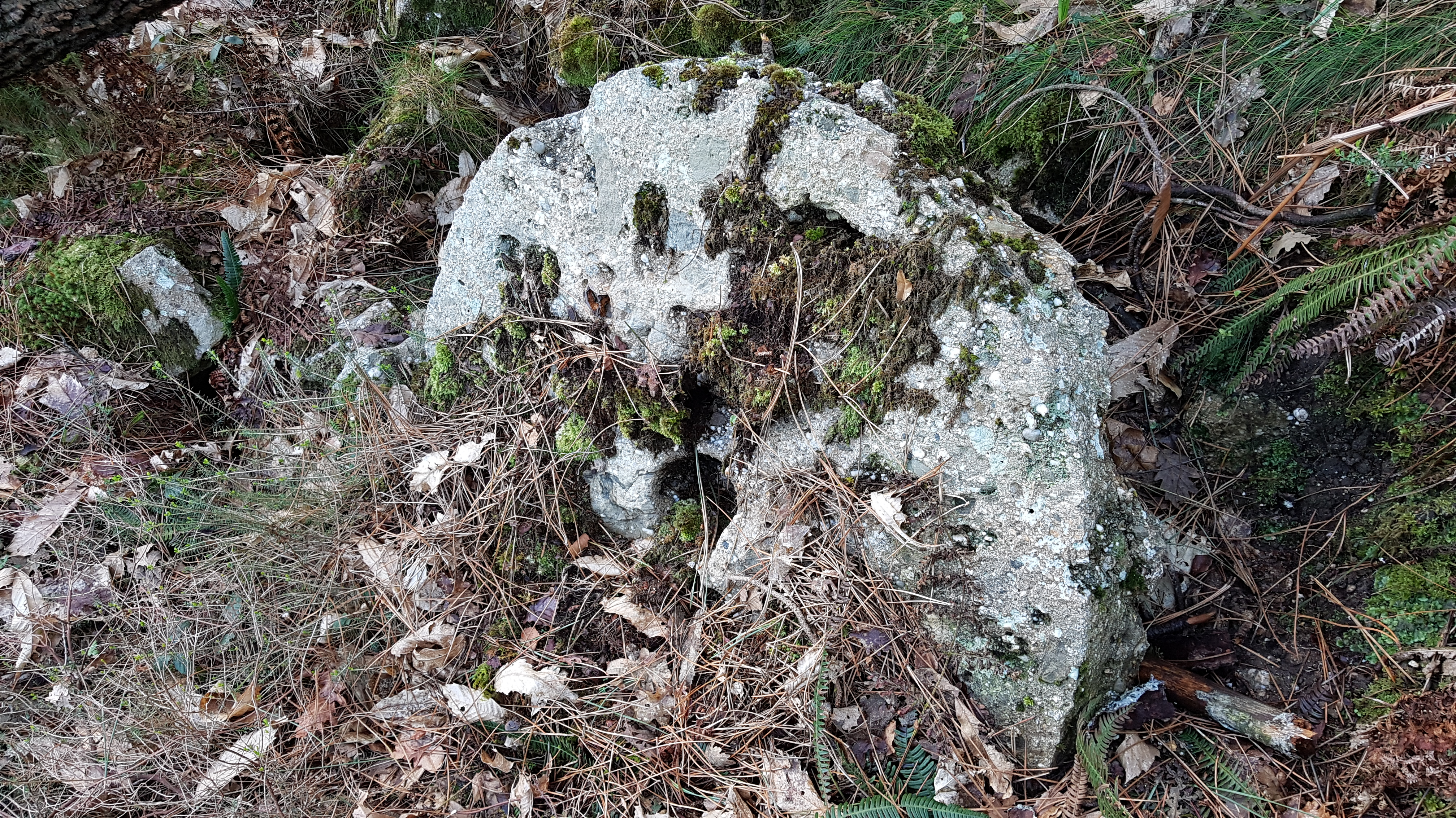 Unfinished millstone with central hole covered by moss and tree litter in the Andatza mountain of Usurbil (Basque Country)